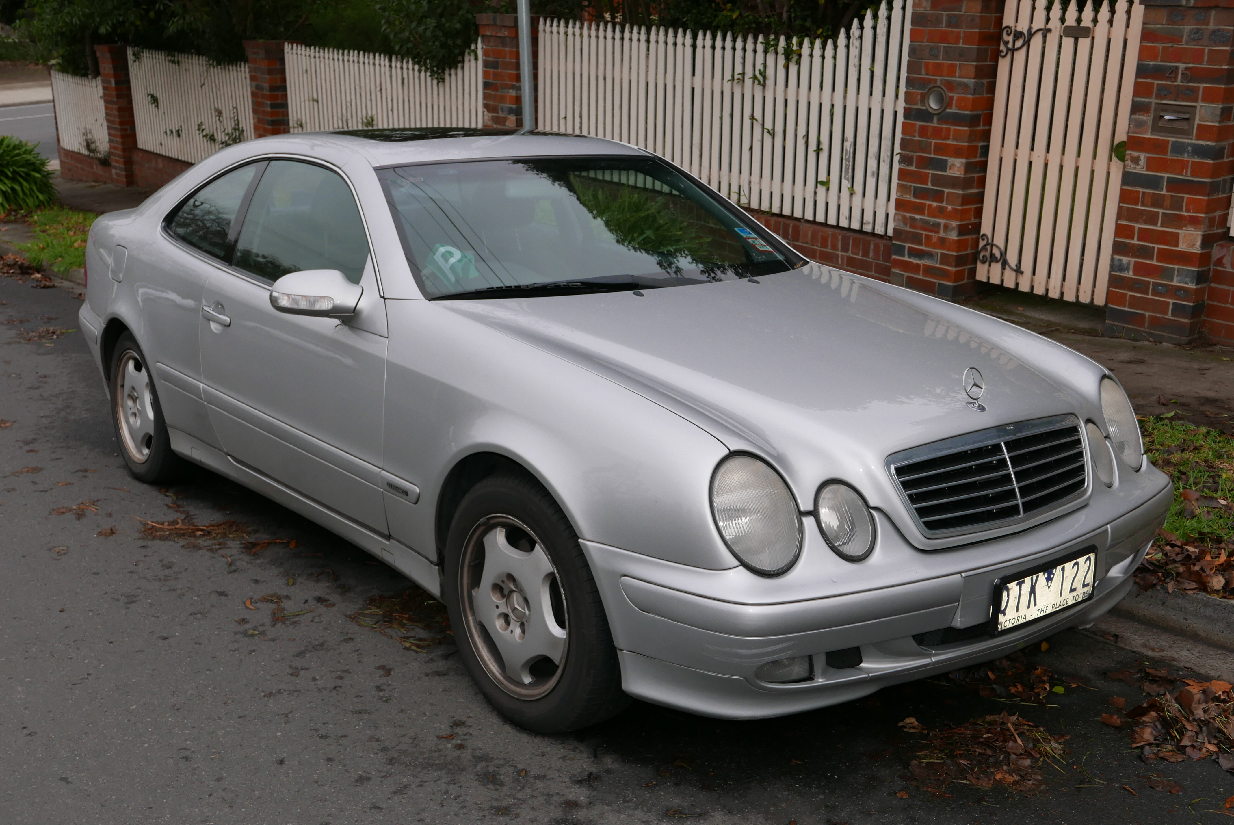 2000 Mercedes-Benz CLK 320 (C 208) Elegance coupe. Photographed in Ivanhoe, Victoria, Australia. Vehicle registration enquiry resultsJurisdictionVictoriaRegistrationQTK122Chassis codeWDB2083652F167754Engine code11294030798604Compliance date2000-09Year of manufacture2000